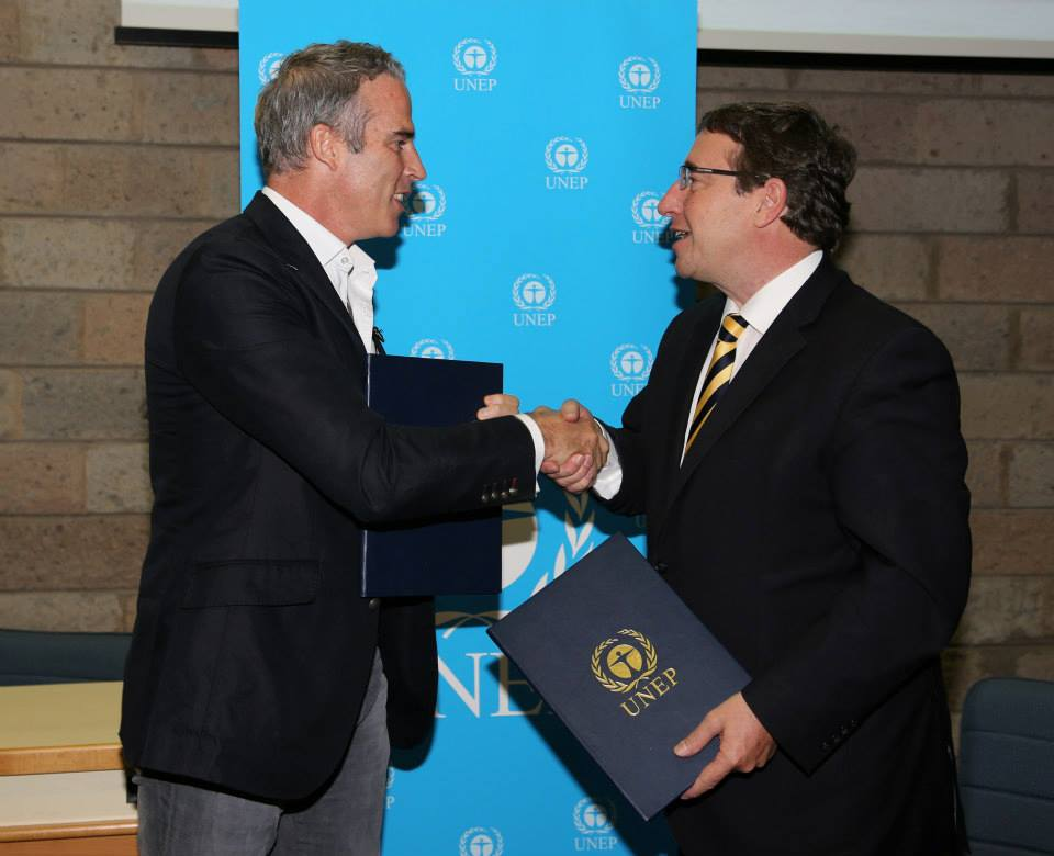 Leiws Pugh recognised as UNEP Ambassador for the Oceans